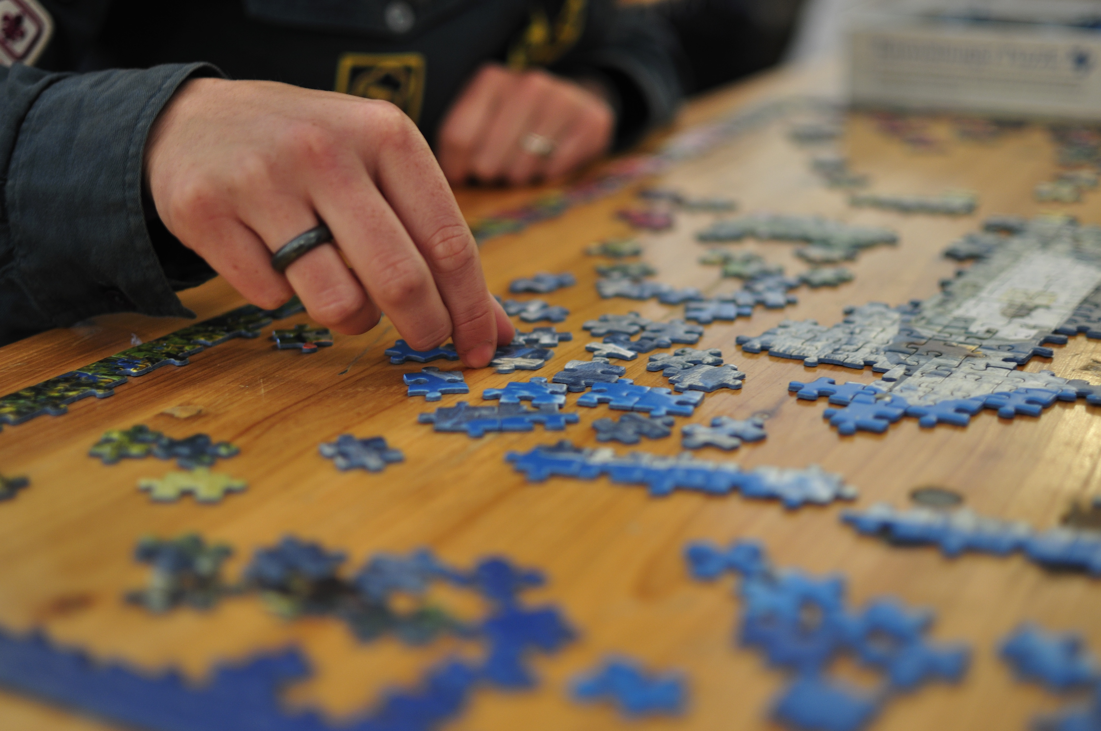 Puzzle